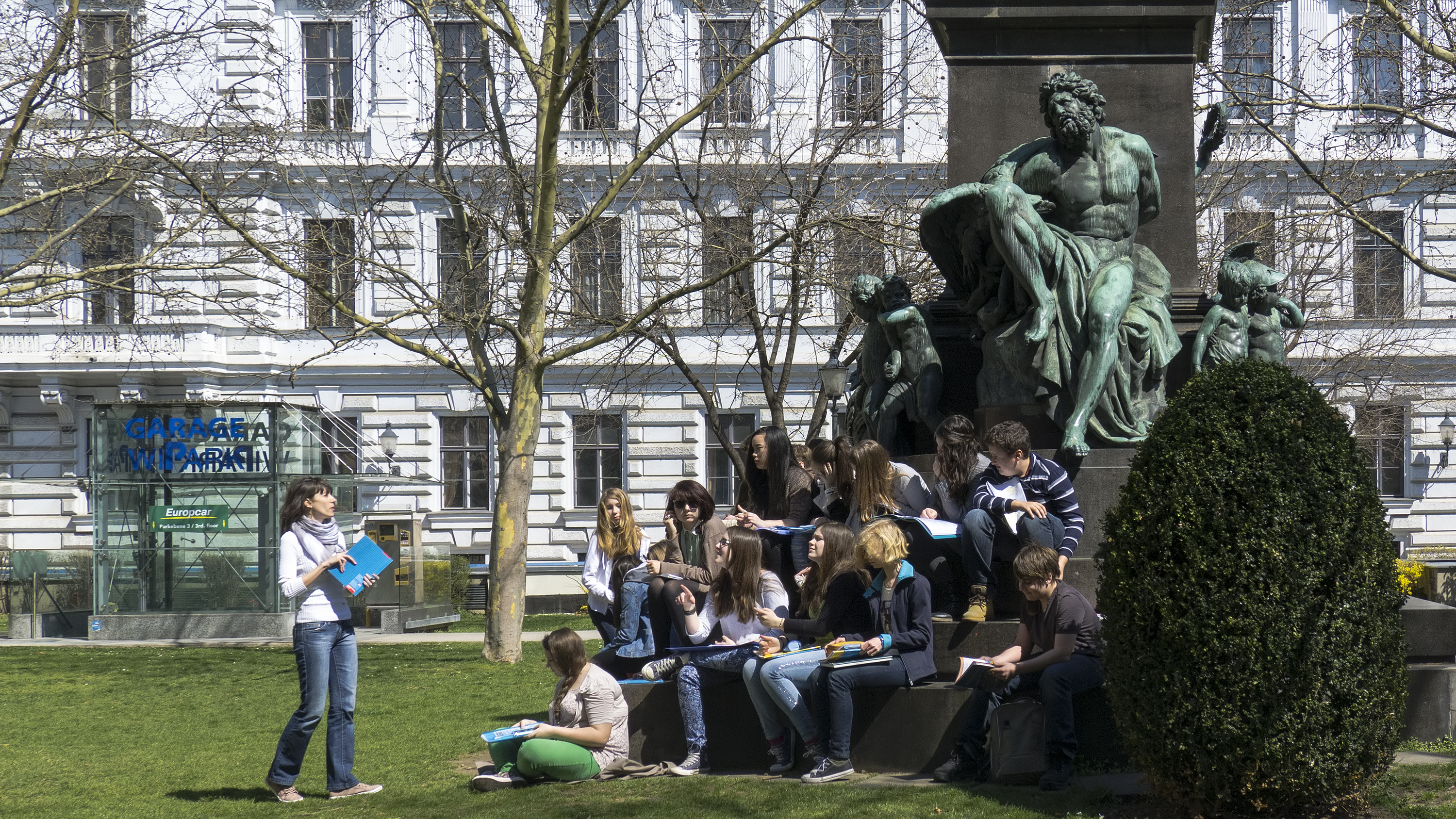 Pupils of the high school Akademisches Gymnasium at Beethovenplatz in Vienna 1